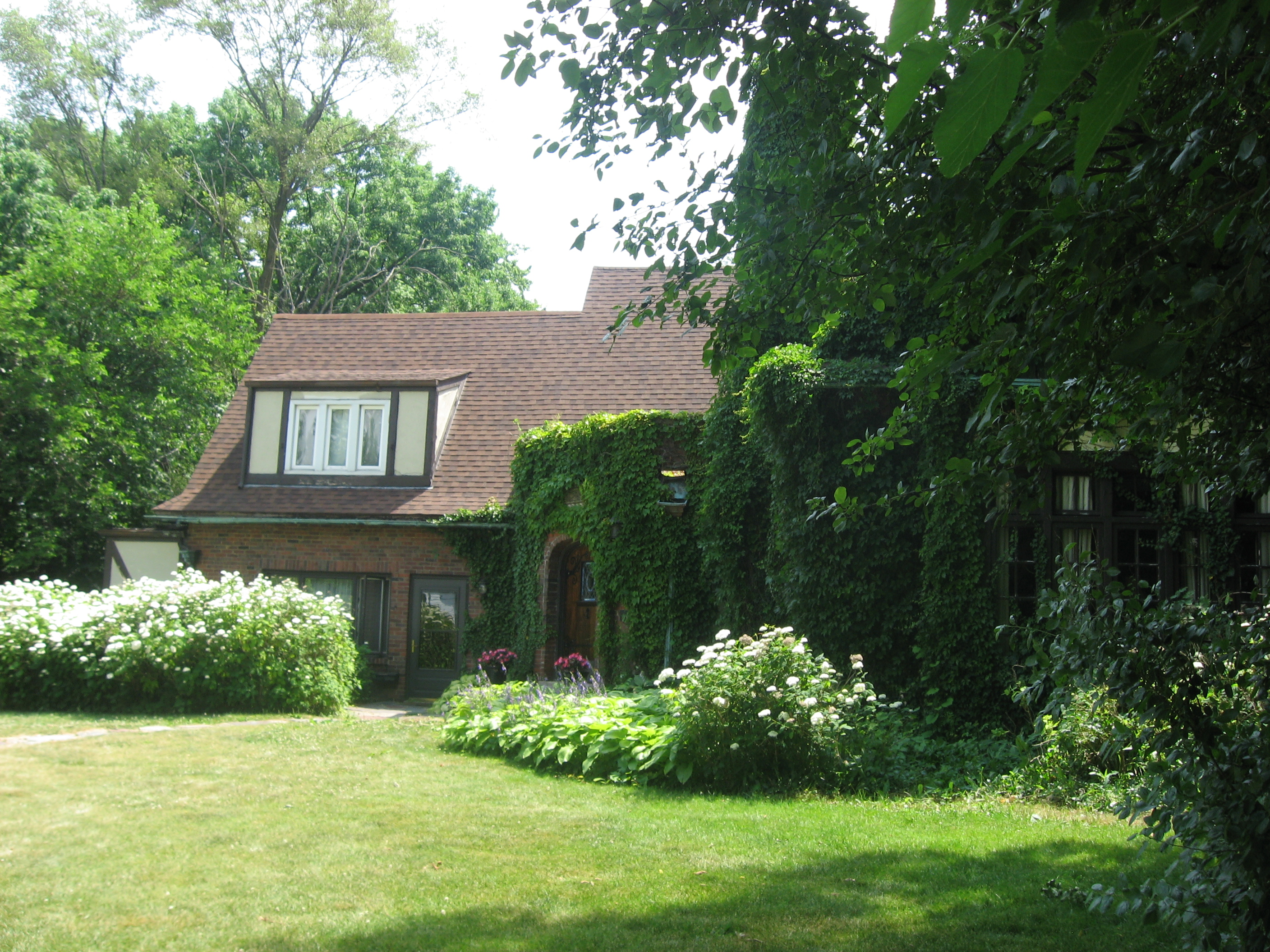 Front of the William Whitaker House, located at 472 S. Main Street in Crown Point, Indiana, United States. Built in 1929, it is listed on the National Register of Historic Places.